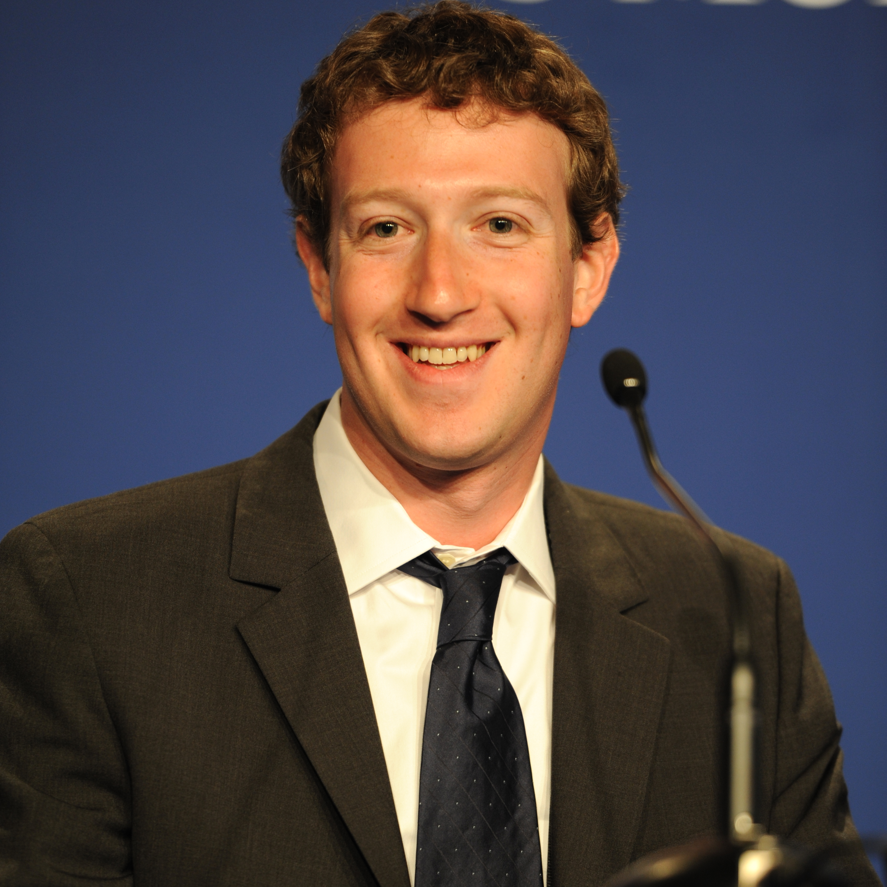 Mark Zuckerberg, Founder & CEO of Facebook, at the press conference about the e-G8 forum during the 37th G8 summit in Deauville, France.